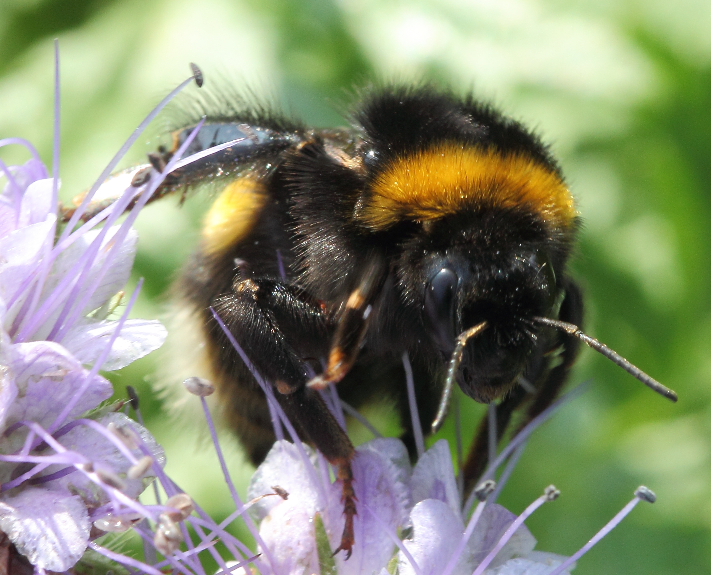 Large earth bumblebee (queen) on phacelia blossoms